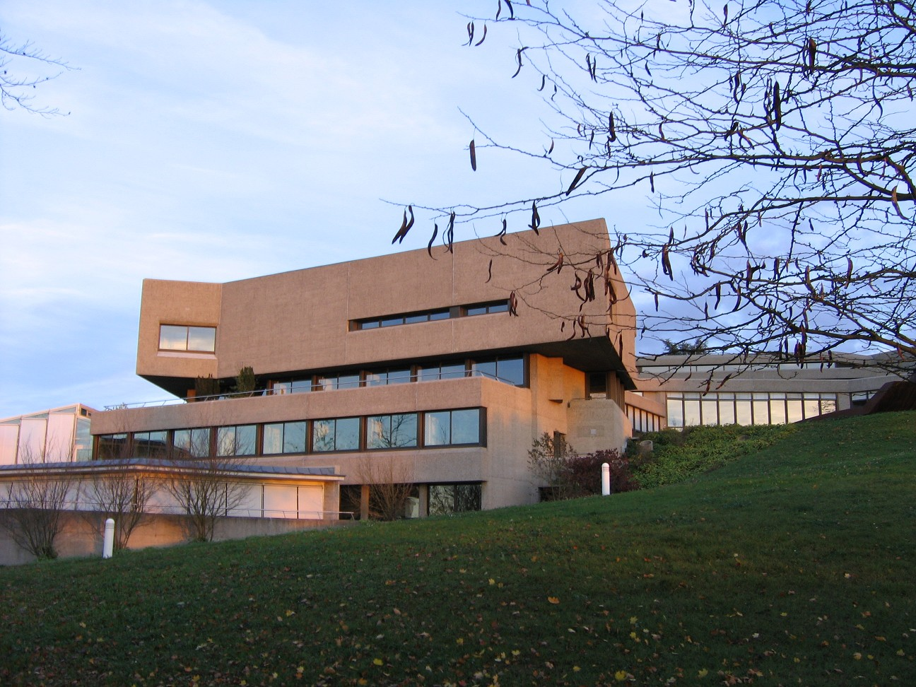 German Literature Archives in Marbach am Neckar